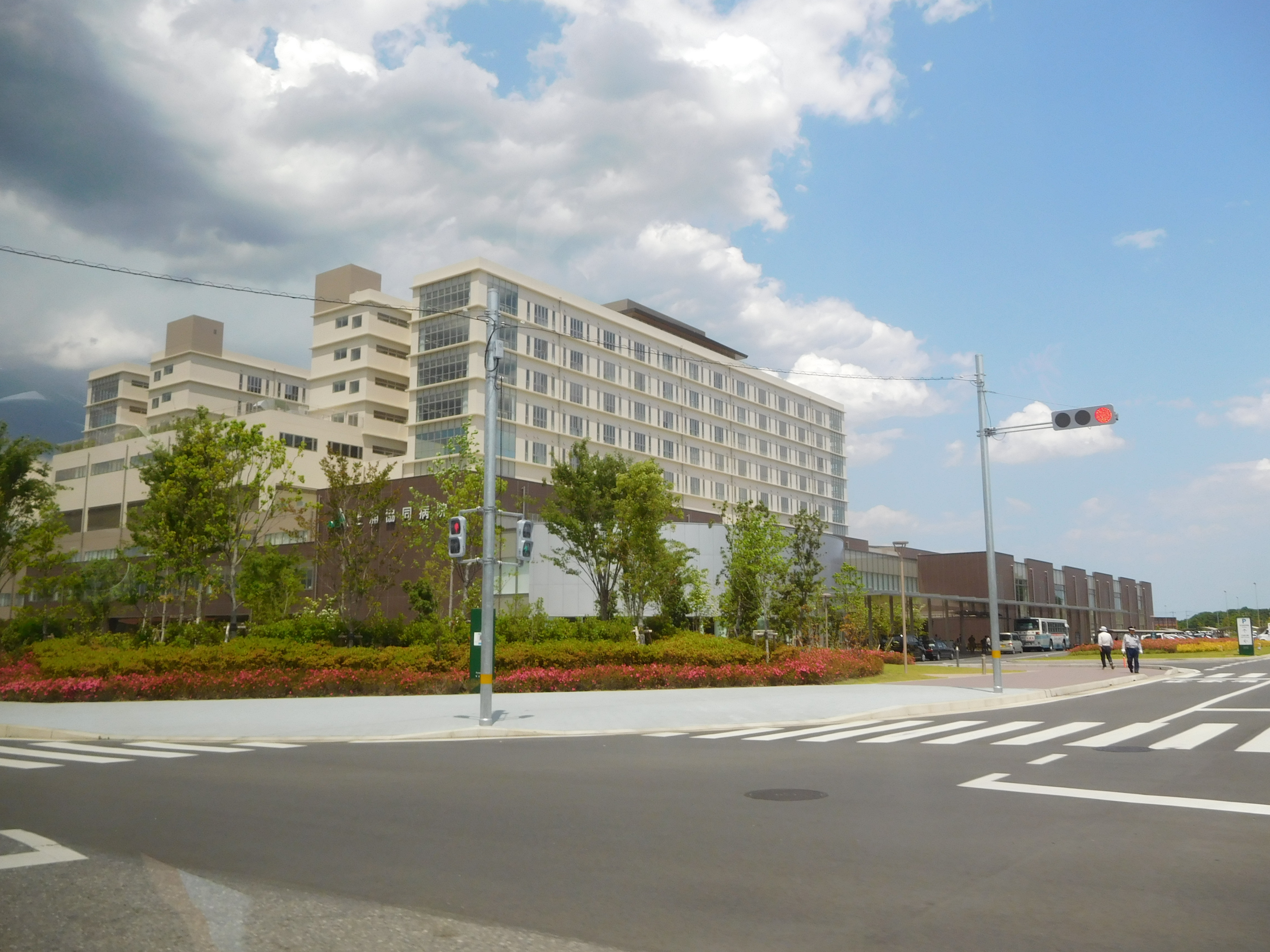 This is Tsuchiura Kyodo General Hospital in Tsuchiura, Ibaraki, Japan.